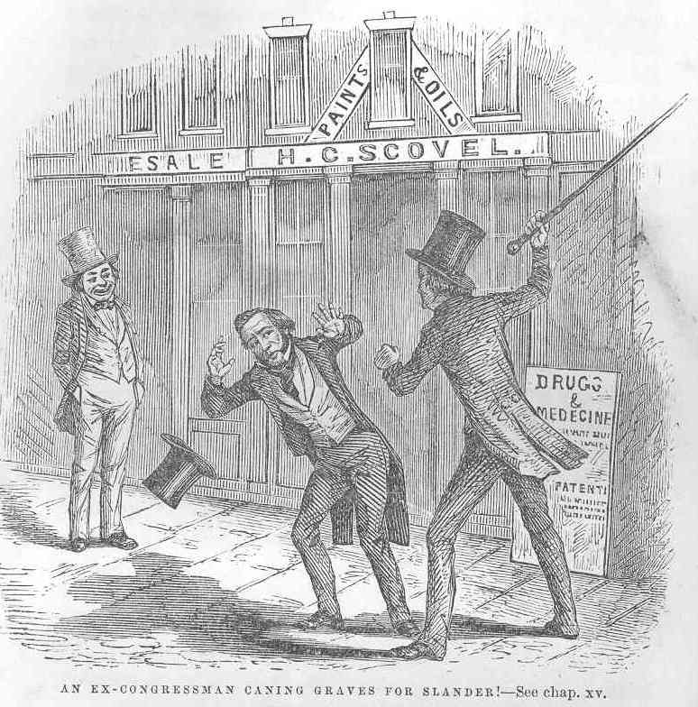 Engraving showing an ex-Congressman beating American Baptist leader James Robinson Graves with a cane, allegedly after Graves "slandered" a Nashville woman of high standing. The engraving appeared in William "Parson" Brownlow's book, The Great Iron Wheel Examined, a diatribe refuting Graves' attacks on Methodism. Personal attacks such as this, which were often untrue or exaggerated, were typical of Brownlow's work.